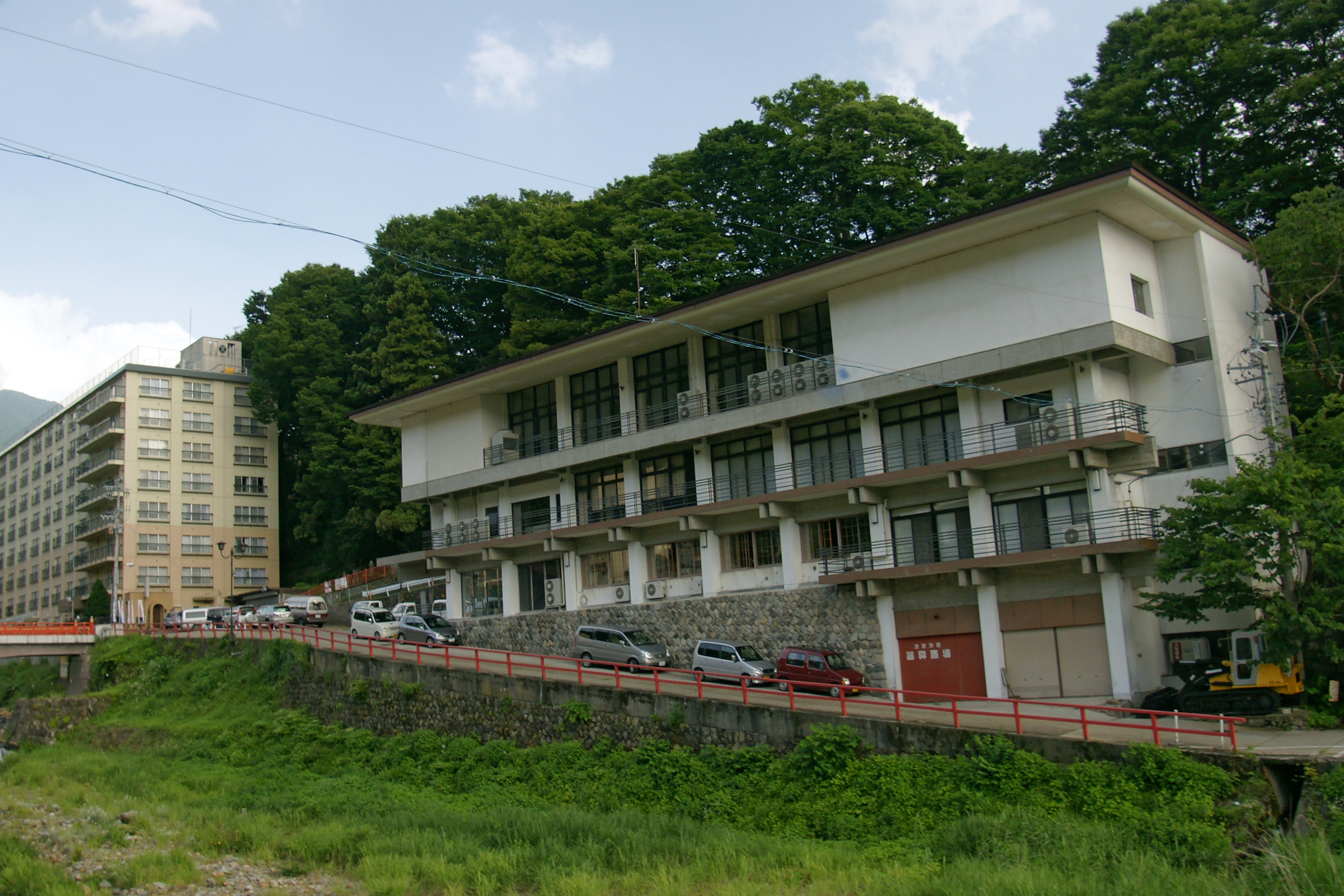 Shibu Onsen ,Yamanouchi, Nagano prefecture, Japan